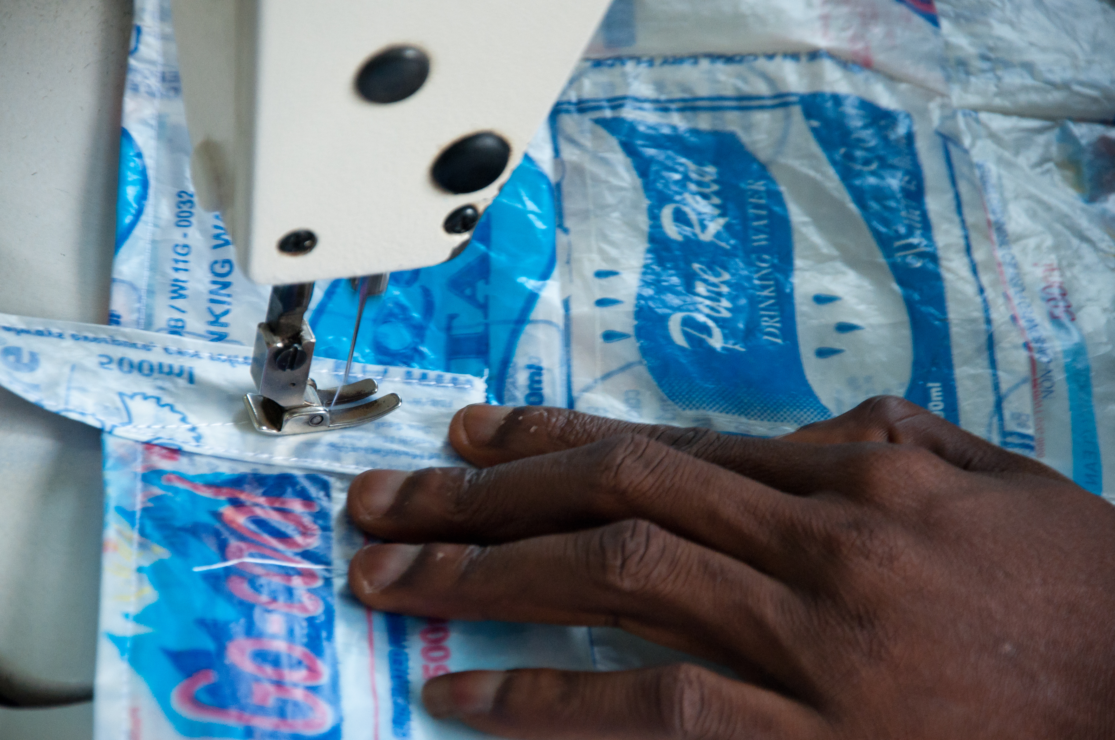 Plastic sachets are stitched into sheets and handles and serve as a base material for making Trashy Bags.